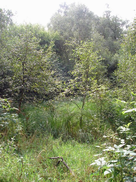 Small Clearing in the Gordon Moss A very confusing place to be on one search for a Missing Person in this Floating woodland a Police dog was lost for two days. All movement in the moss has to be done with a Compass.